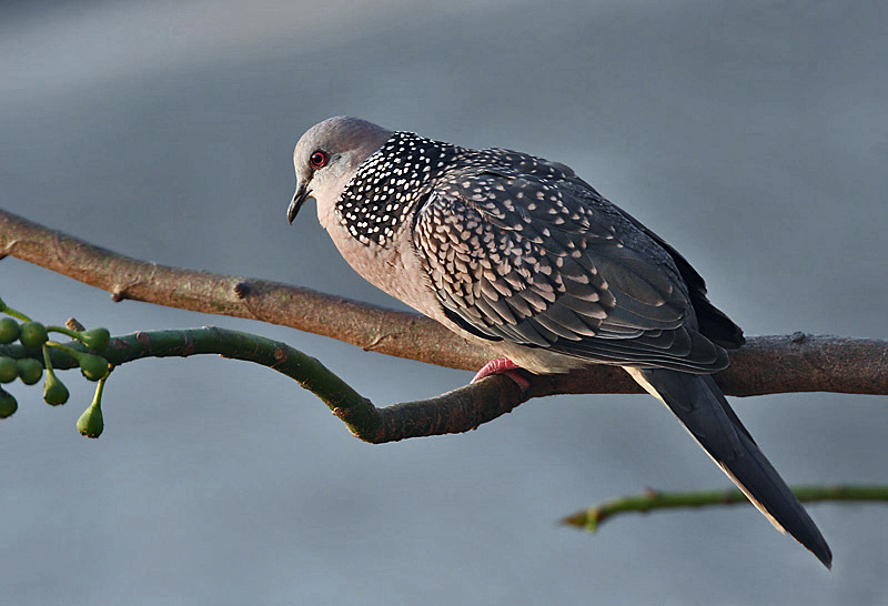 Spotted Dove Streptopelia chinensis in Kolkata, West Bengal, India.